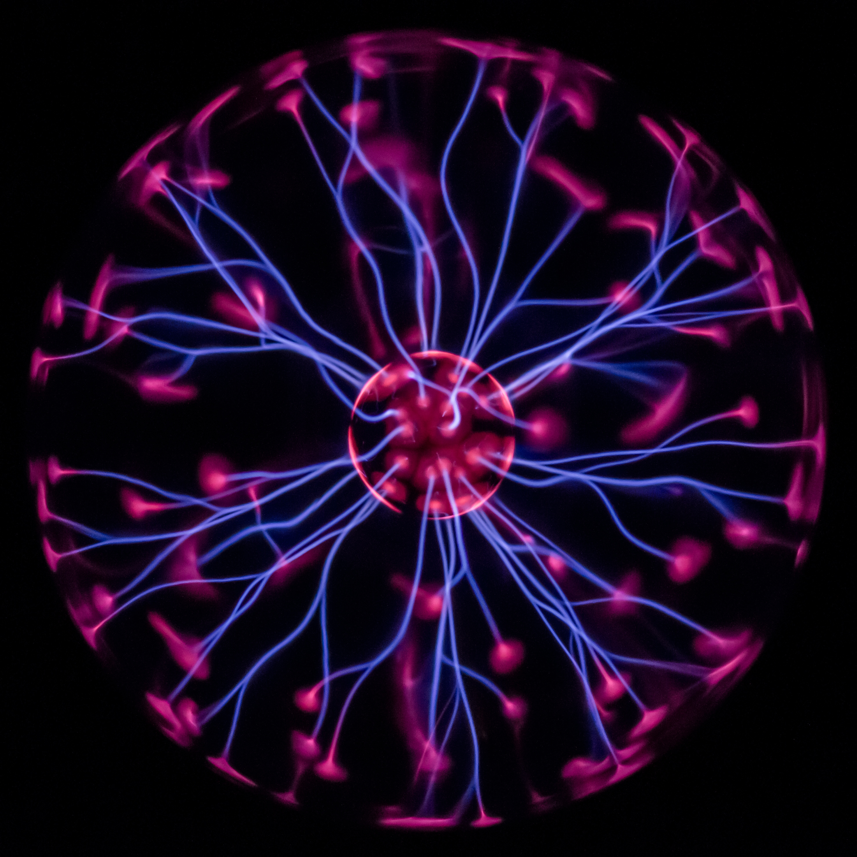 A Plasma ball photographed from above. The 1/60s exposure is needed to capture the plasma filaments rather than blurring them to ribbons.